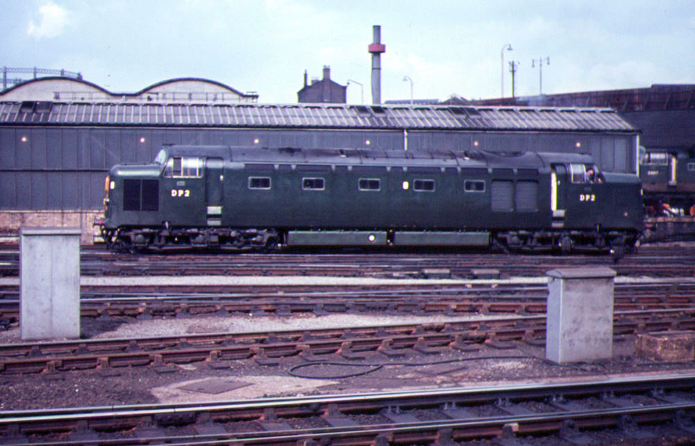 DP2 at Kings Cross